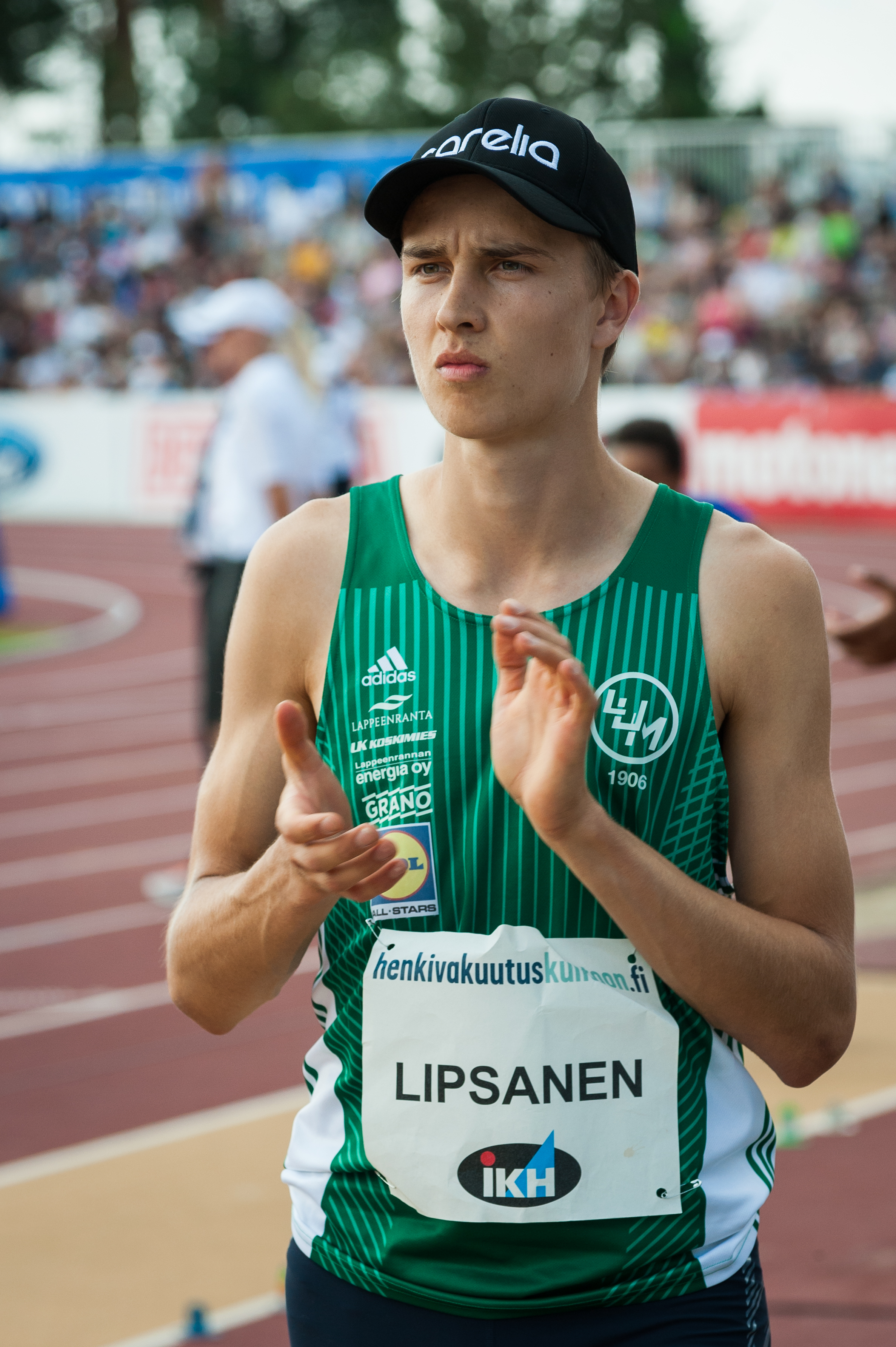 Men's triple jump competition at the 2018 Kalevan Kisat, the Finnish championships in athletics, in Jyväskylä, Finland.